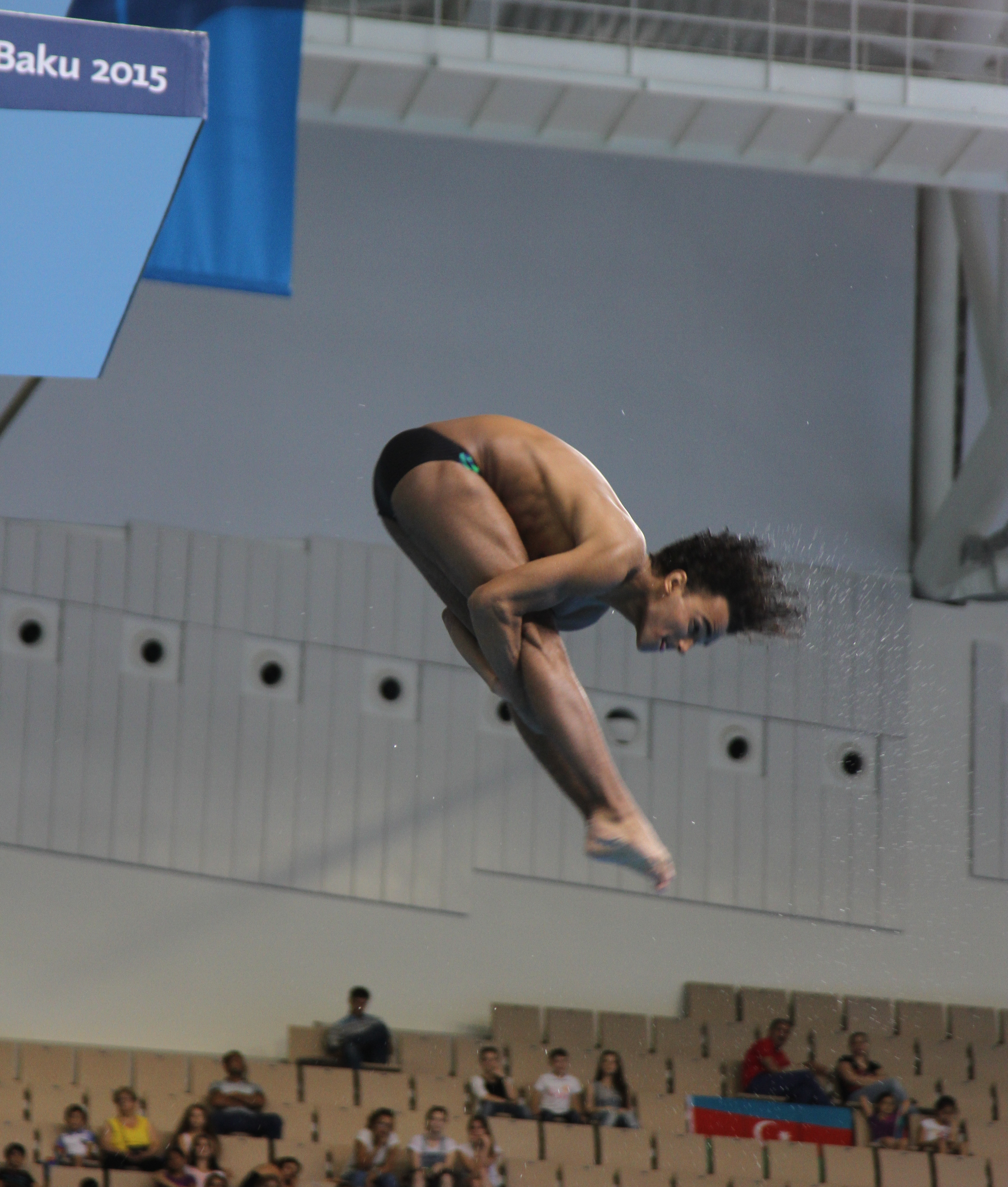 Andreas Larsen at the European Games in Baku 2015 from the 3m diving events